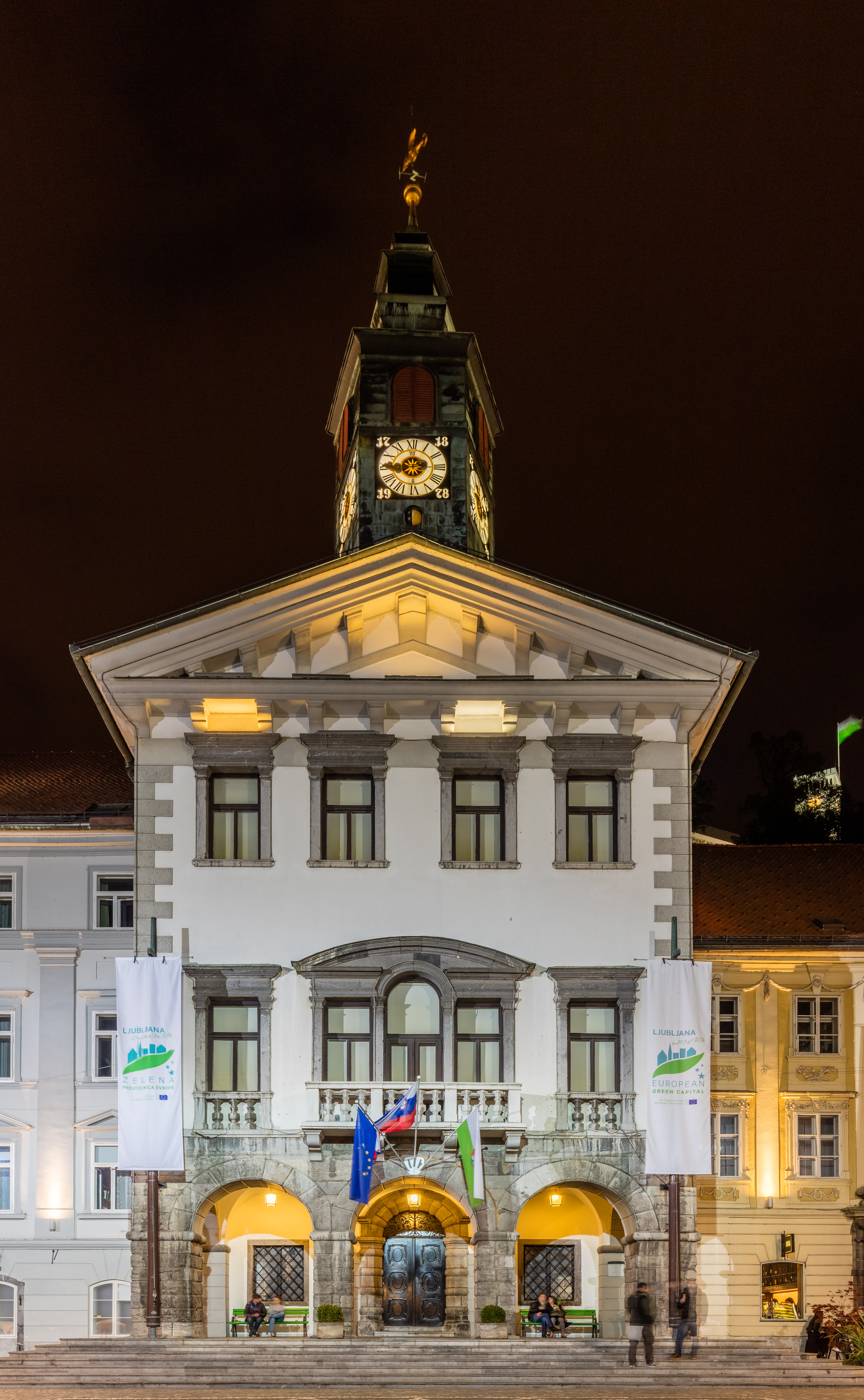 Town hall, Ljubljana, Slovenia